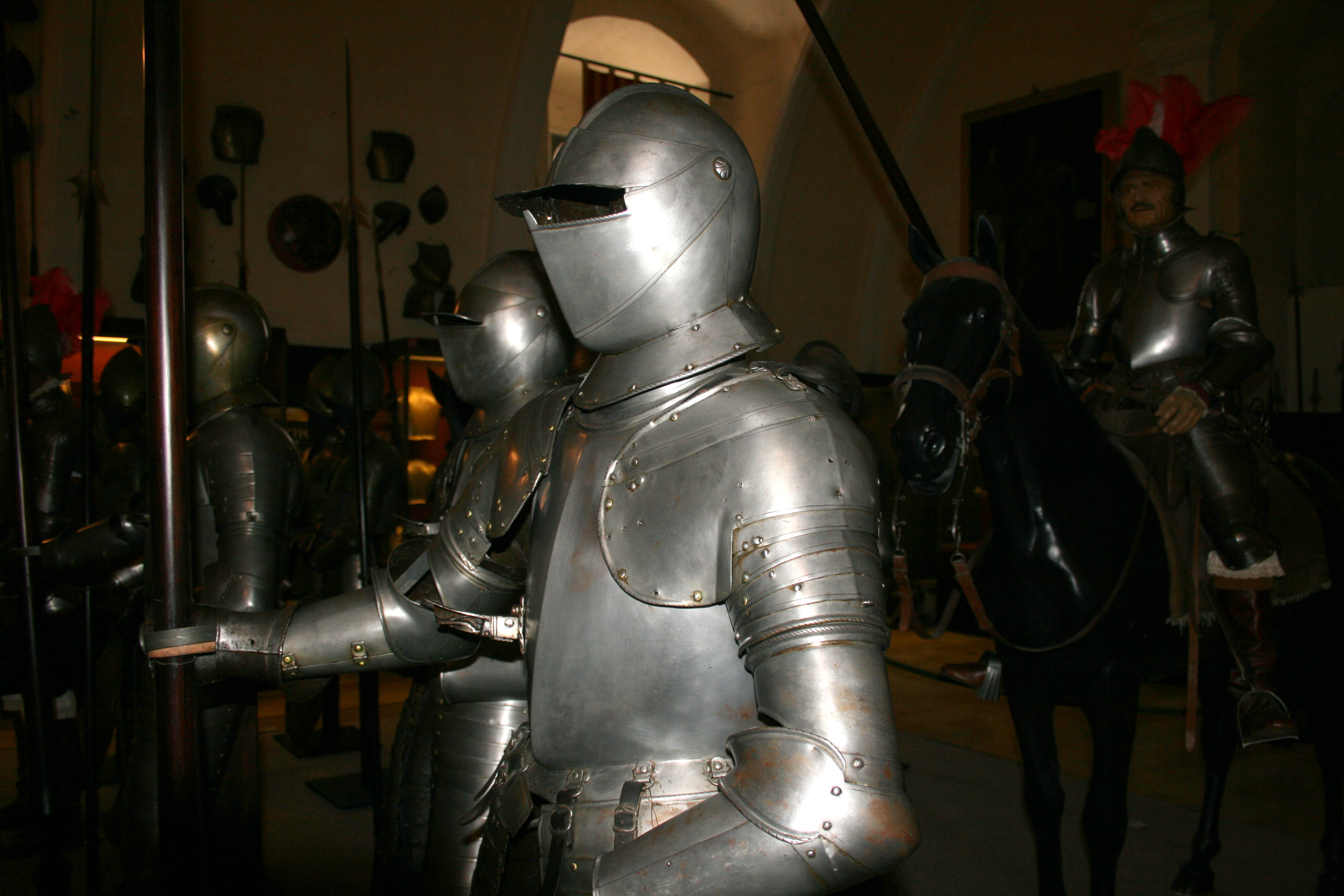 Spanish conquistador style armour